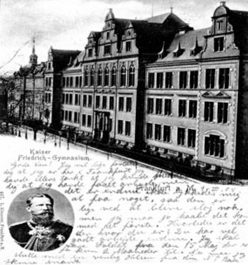 Handwritten postcard portraying Kaiser-Friedrichs-Gymnasium (inaugurated 1888) on the right which is named after German emperor Friedrich III. (down left). On the left Realschule with Lyzeum of Israelitische Religionsgesellschaft (inaugurated 1853, building shown as of 1881) in Frankfurt am Main, Hesse, Germany.